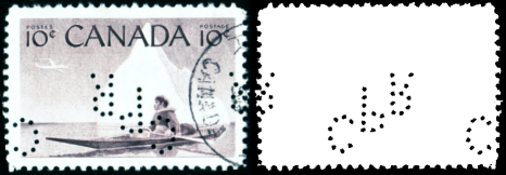 1955 Canadian 10 cent definitive stamp with CPR perfin. Scott #351.